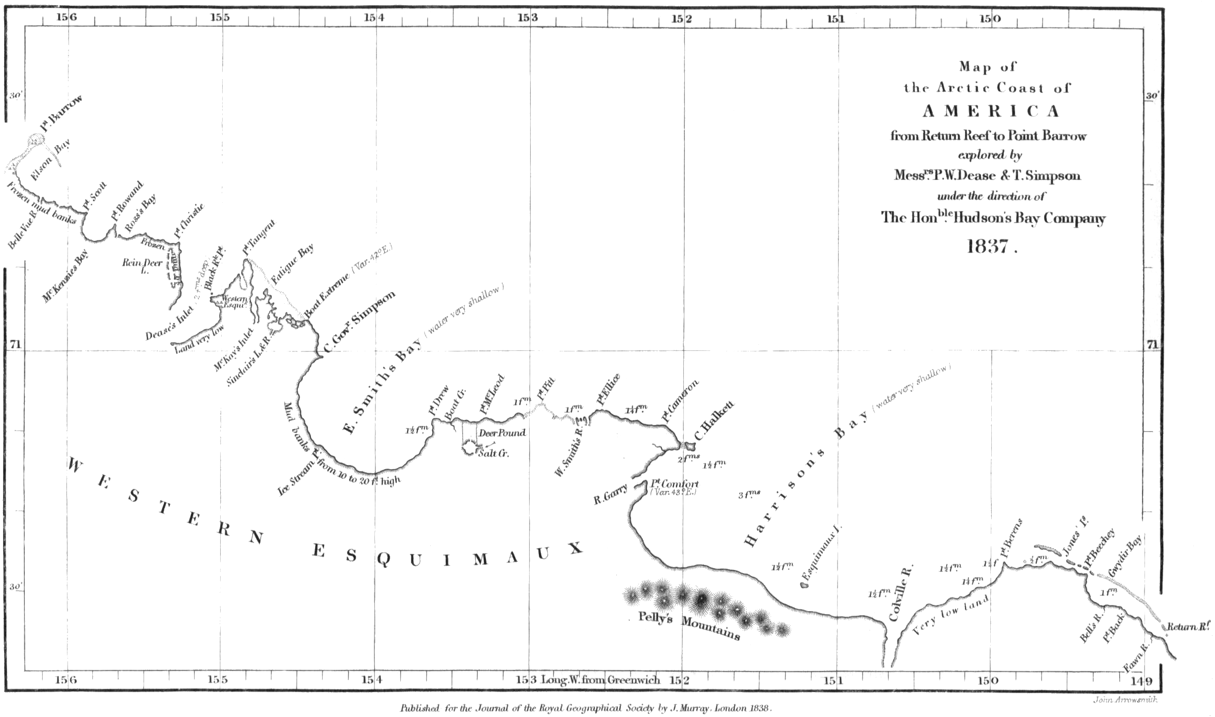 Map of the northern coast of Alaska, from Point Burrow on the western edge to Return Reef (just east of the Colville River) on the eastern. Mapped by Peter W. Dease and Thomas Simpson in 1837, during their Arctic expedition.